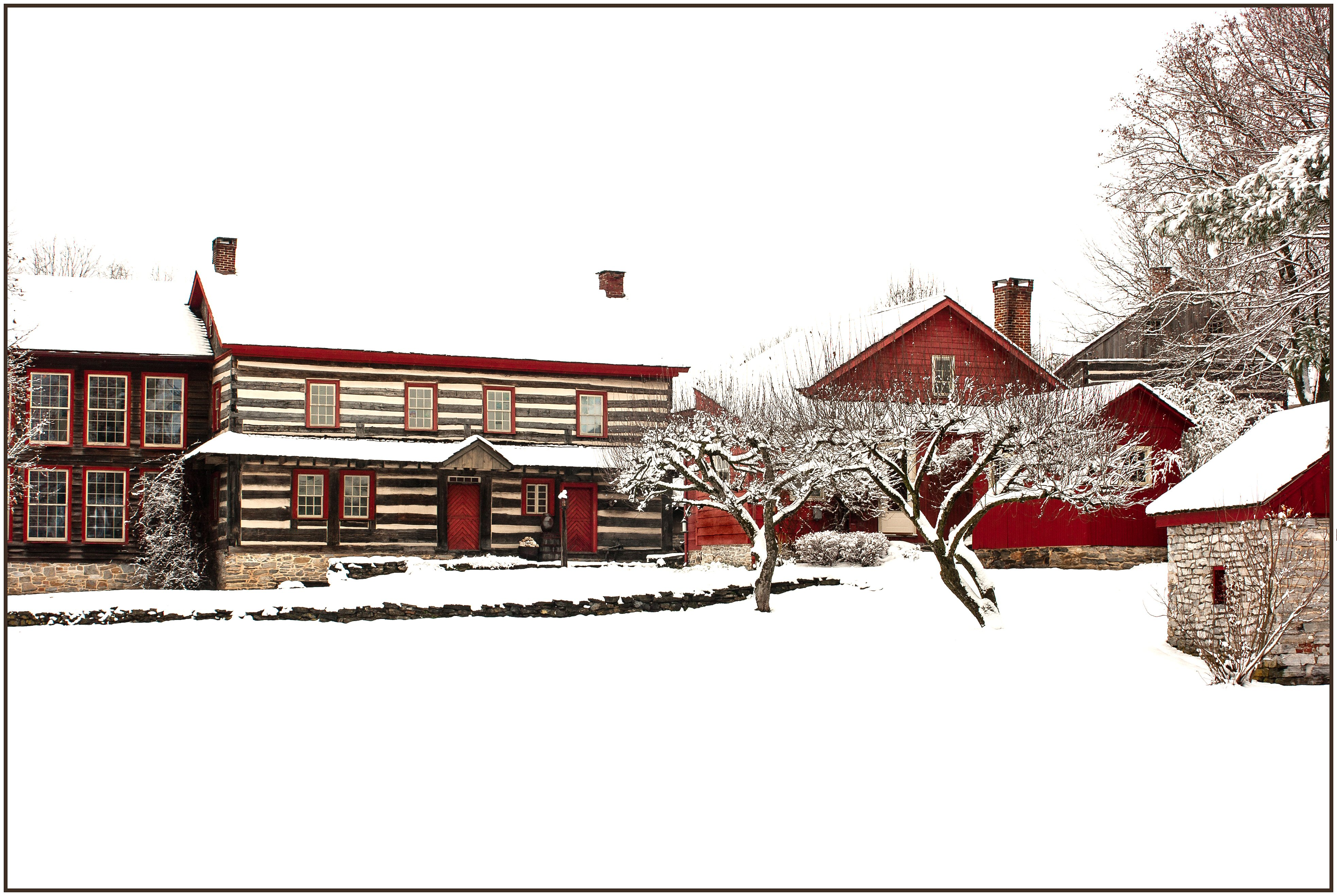 The log farmhouse, with the summer kitchen, springhouse, and other buildings at the Hess Homestead